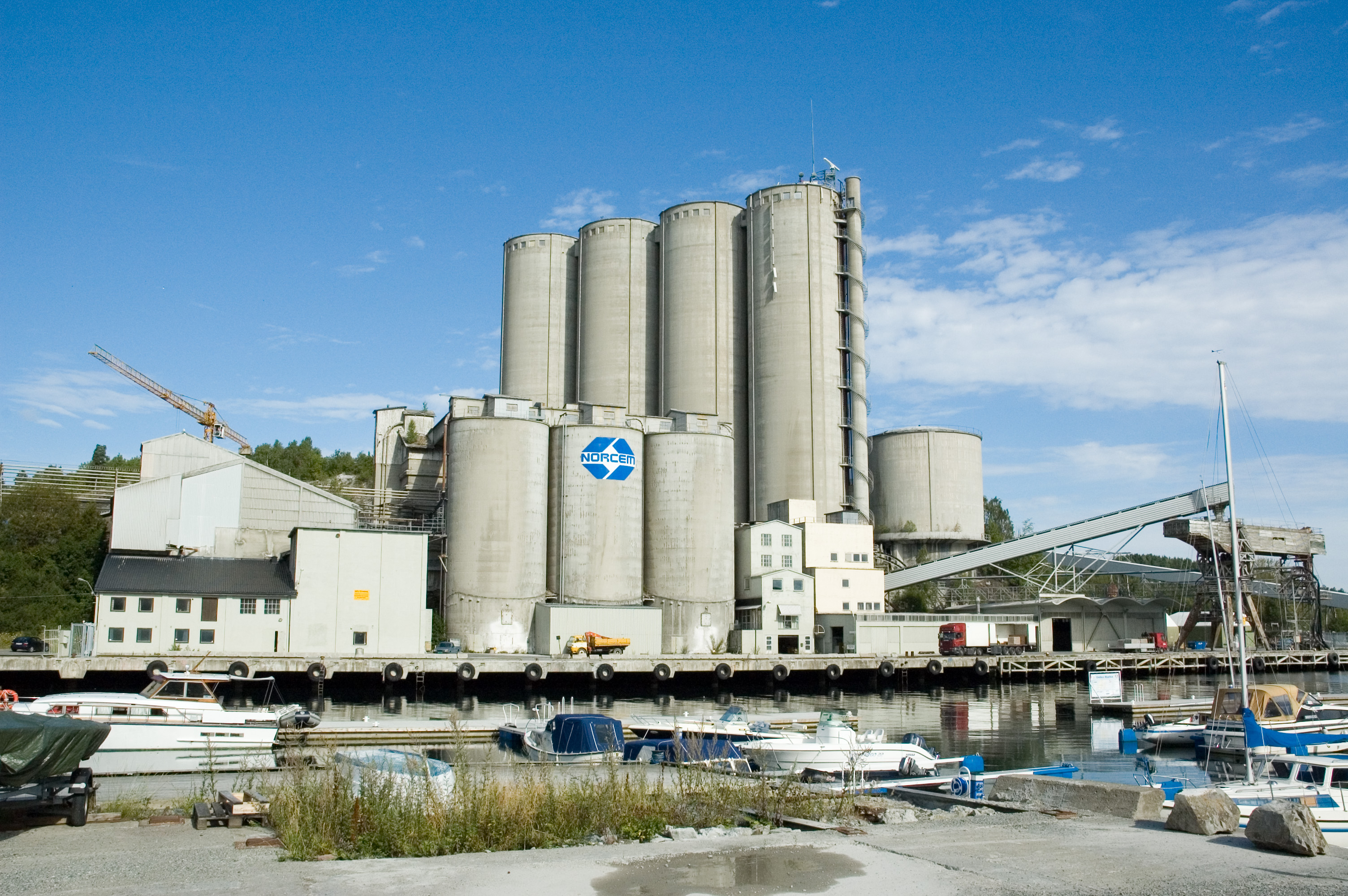 The small town of Slemmestad in Norway. These cement storage buildings is the landmark of the town.